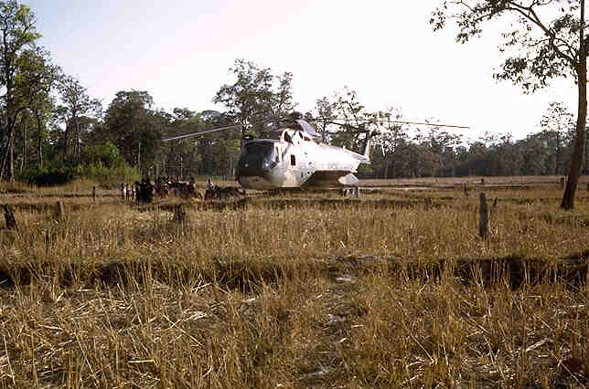 Operation Pony Express, Vietnam War. A USAF CH-3E downed in a rice paddy after having taken off with too many members of a Thai Artillery team on board.